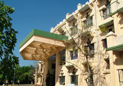 front view of RITs Ad Block.